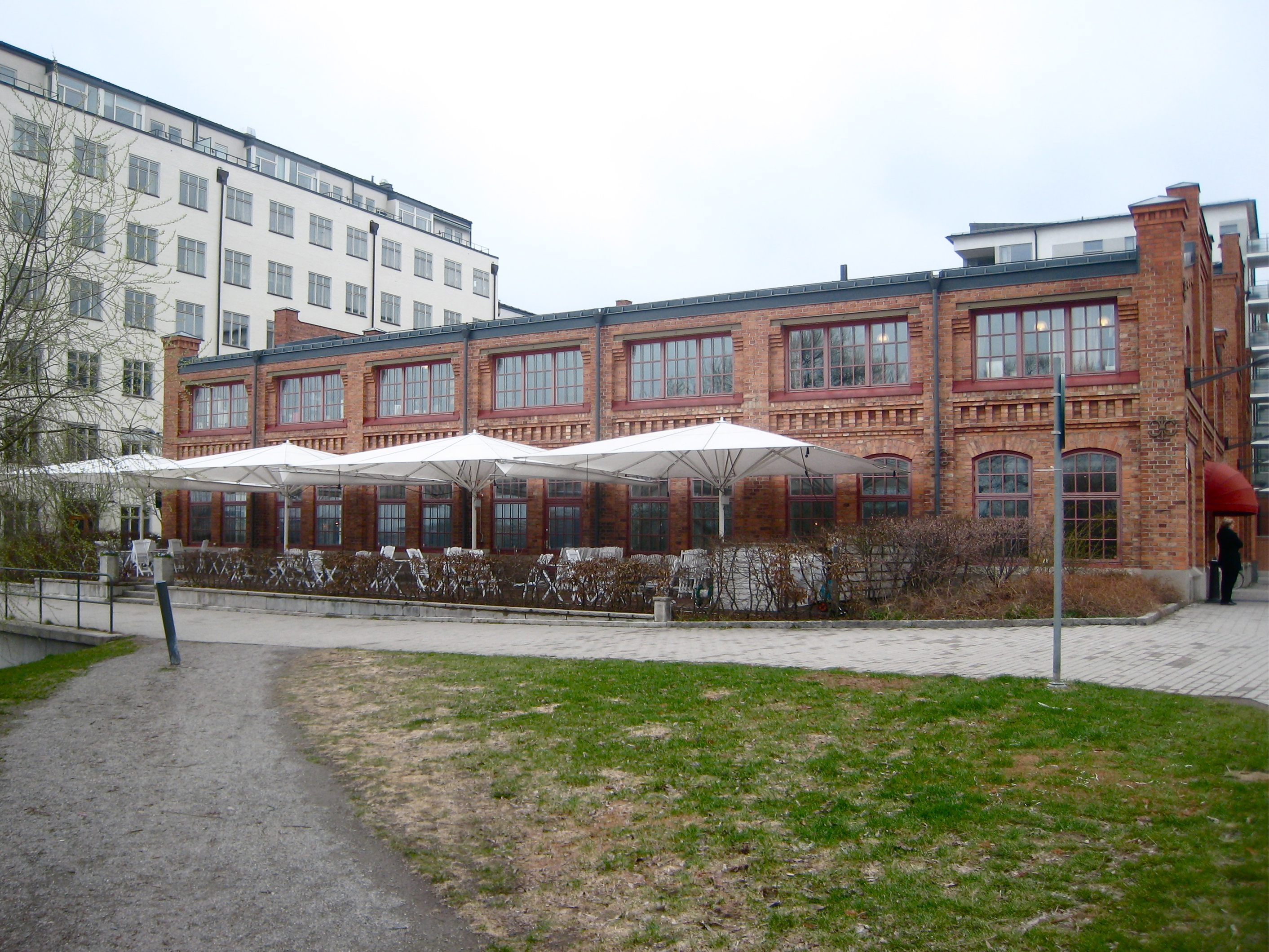 Restaurang Lux, Lilla Essingen Stockholm.